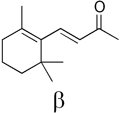 chemical structure of beta-ionone